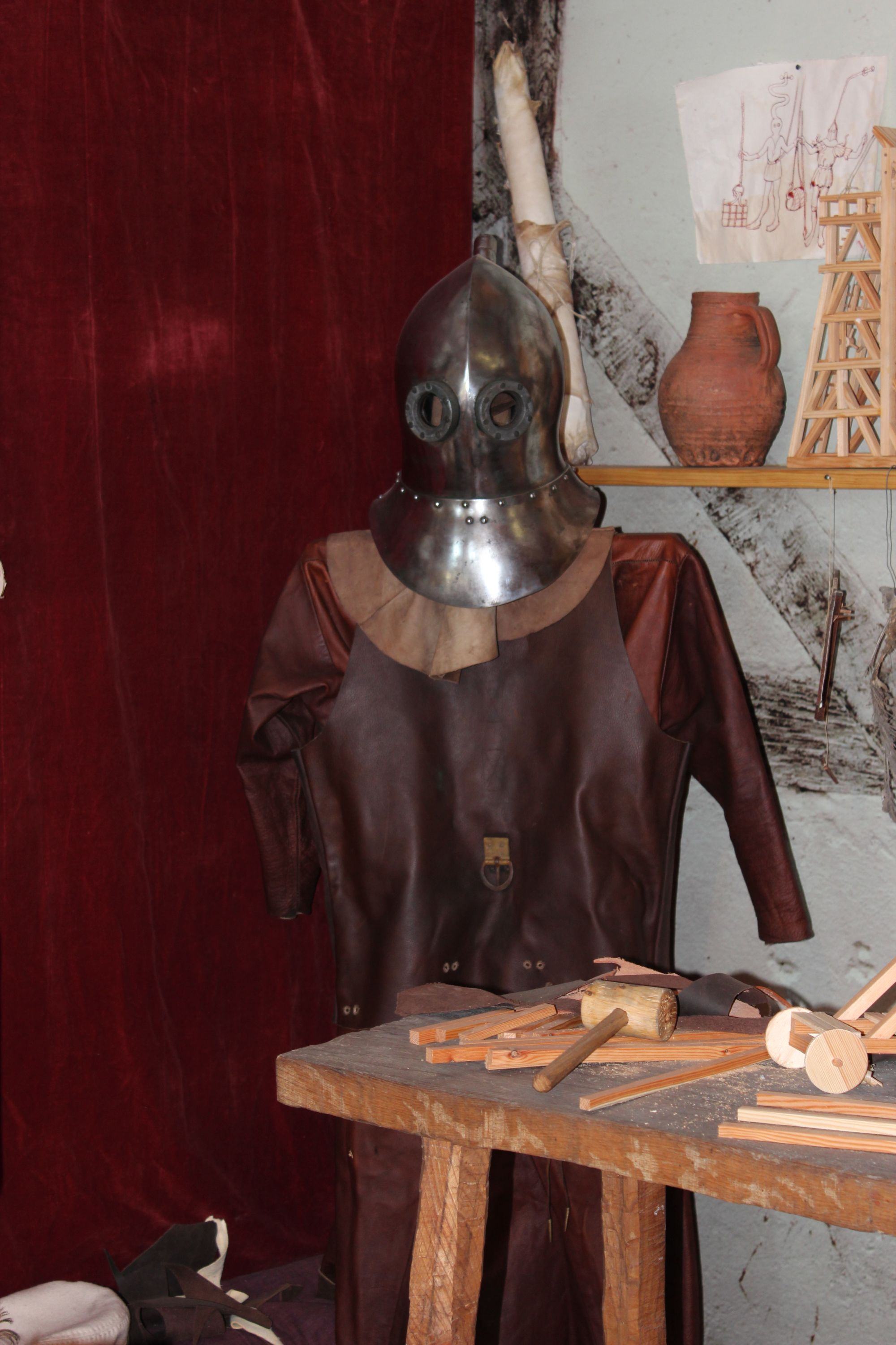 Medieval diving suit at Middelaldercentret (Middle Ages Centre) in Denmark. Reconstructed from Bellifortis by Konrad Kyeser and Ms.Thott.290.2º by Hans Hatlhoffer, where it was reproduced.